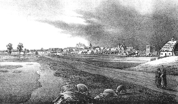 1847 lithograph of Belz, a town in West Ukraine